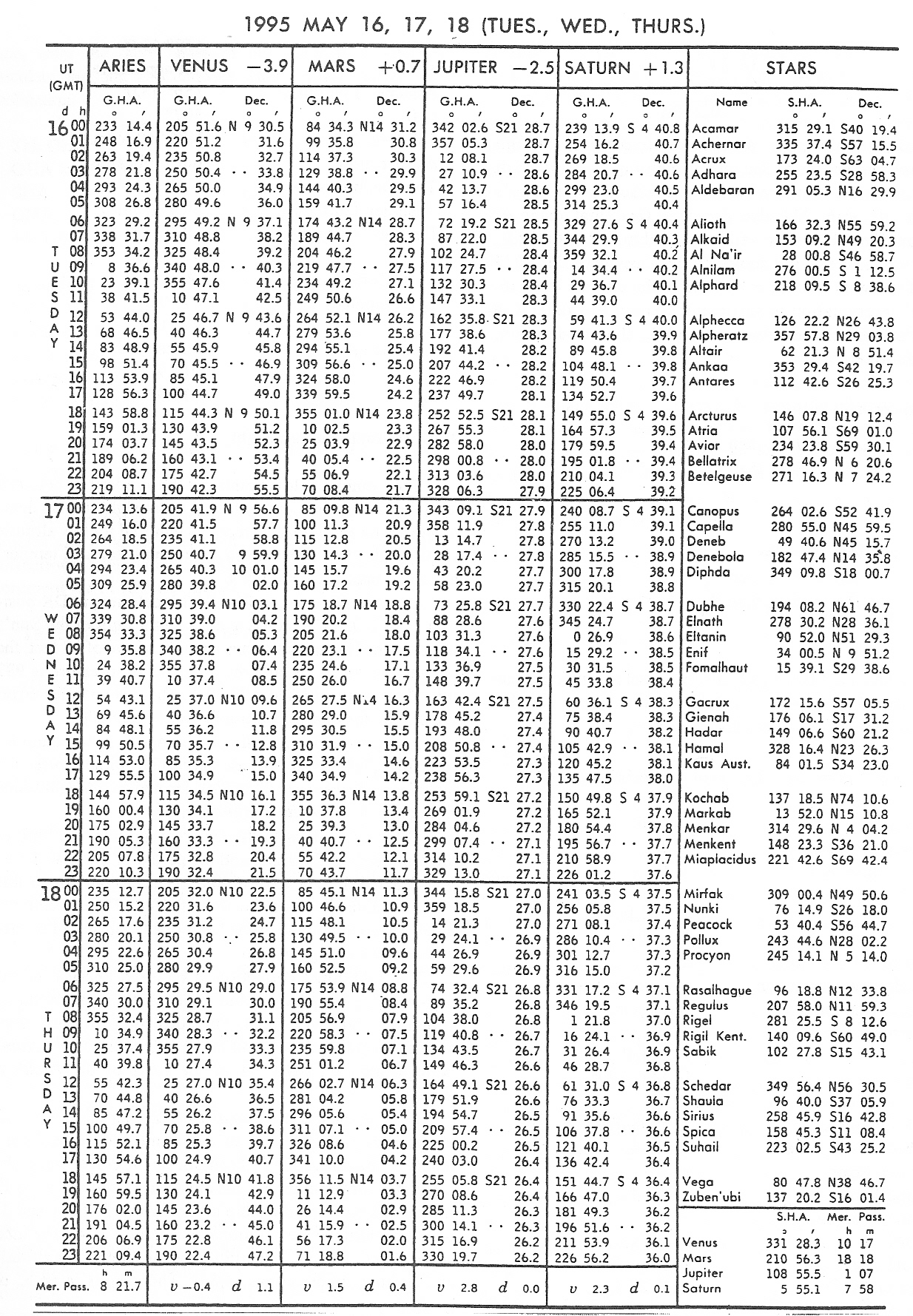 Sample left-hand page of the (public domain) 1995 Nautical Almanac